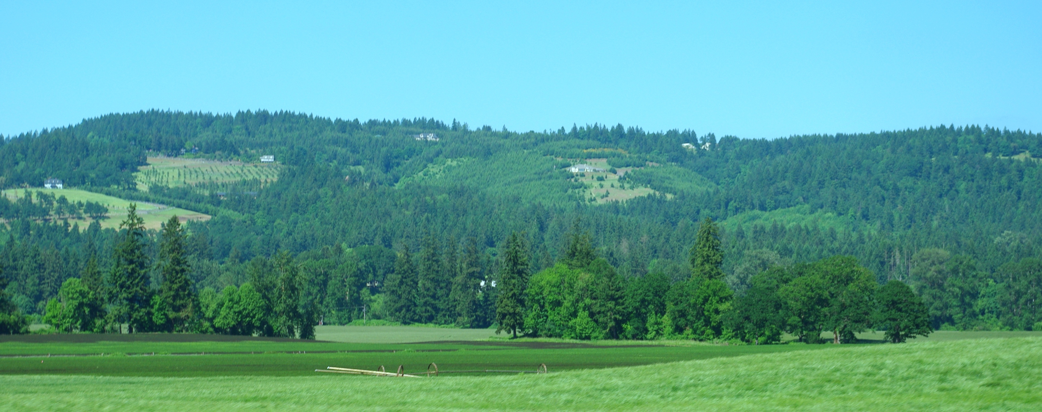 Chehalem Mountains in Oregon